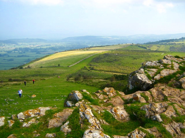 The summit of Crook Peak looking northeast towards Compton Hill. Somerset, UK.